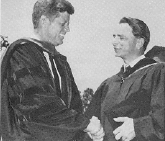 "JFK and Byrd - After a decade of night classes, I earned my law degree from American University in 1963. President John F. Kennedy presented me with my diploma."